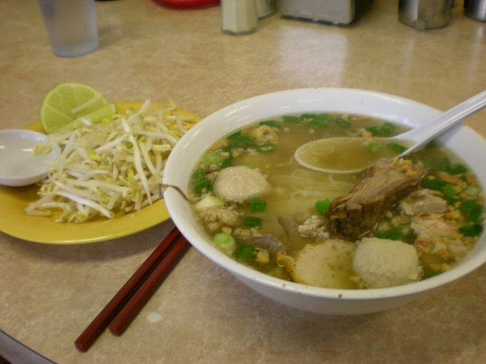 Ka Tieu Phnom Penh (Phnom Penh style noodle soup)